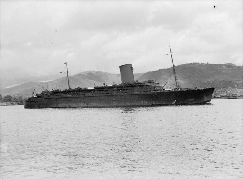 The Royal Navy during the Second World War The SS PASTEUR transporting troops and leaving port. Convoy WS19.